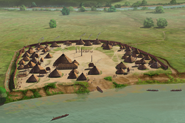 The King Site (9FL5) is a proto-Mvskoke (Muscogee or Creek confederacy) Barnett Phase Mississippian culture village occupied in the late protohistoric period during a roughly 30-40 year period sometime between the 1540 de Soto entrada and 1600 CE. It is located on a meander bend of the Coosa River in northwestern Georgia and was one of 5 non-mound subsidiary settlements of the"Rome Polity"which was centered on the nearby Nixon mound site (9FL162). The 2.3 hectare village featured a 1300-foot long ditch and palisade, an open plaza with one large post in the center and a 48-foot square ceremonial structure in its northeastern edge, and 40-50 houses surrounding the plaza. Digital illustration, all rights held by the artist, Herb Roe © 2018.